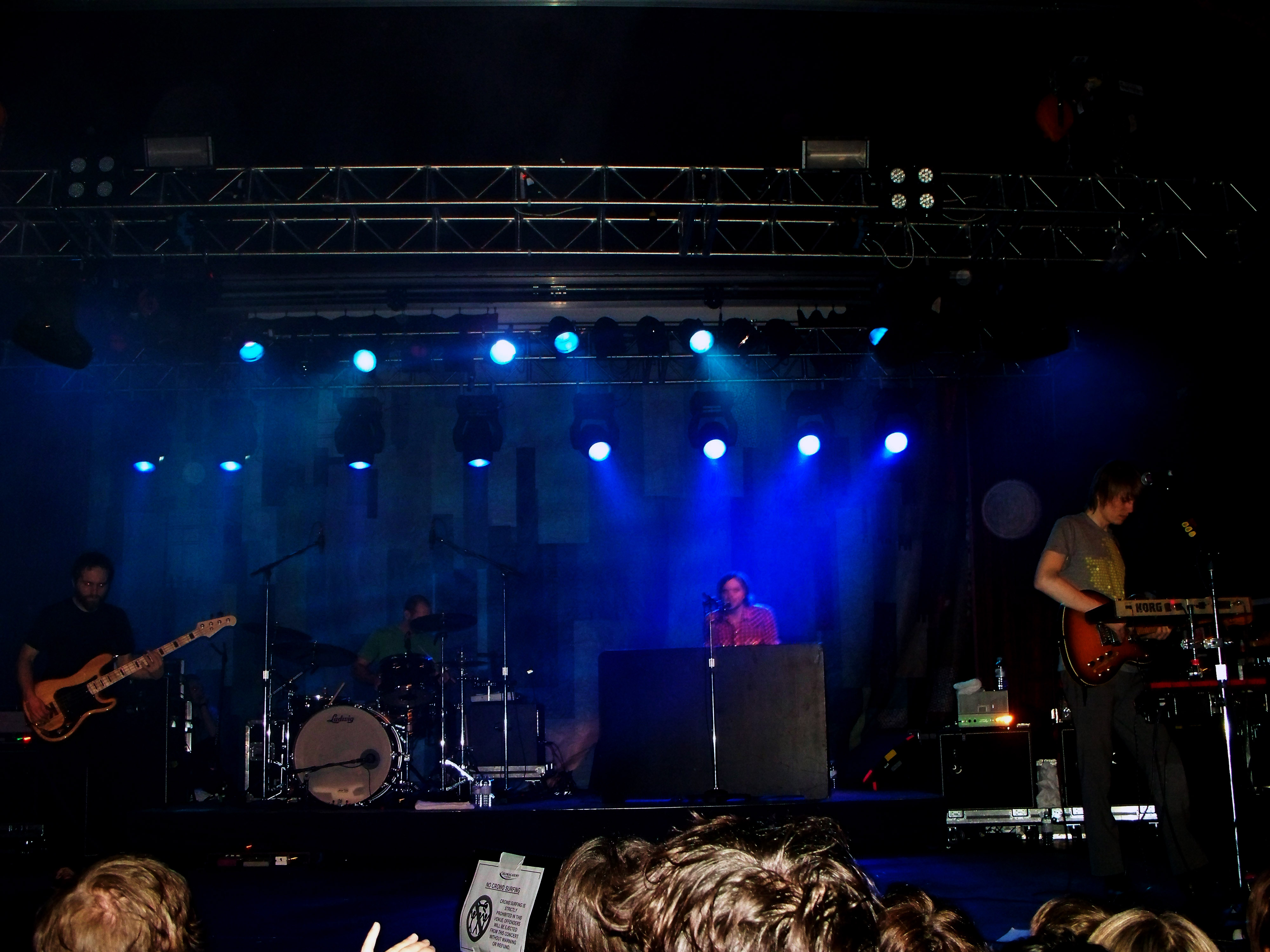 Death Cab for Cutie performing at the Sheffield Academy (I will post a better description later).